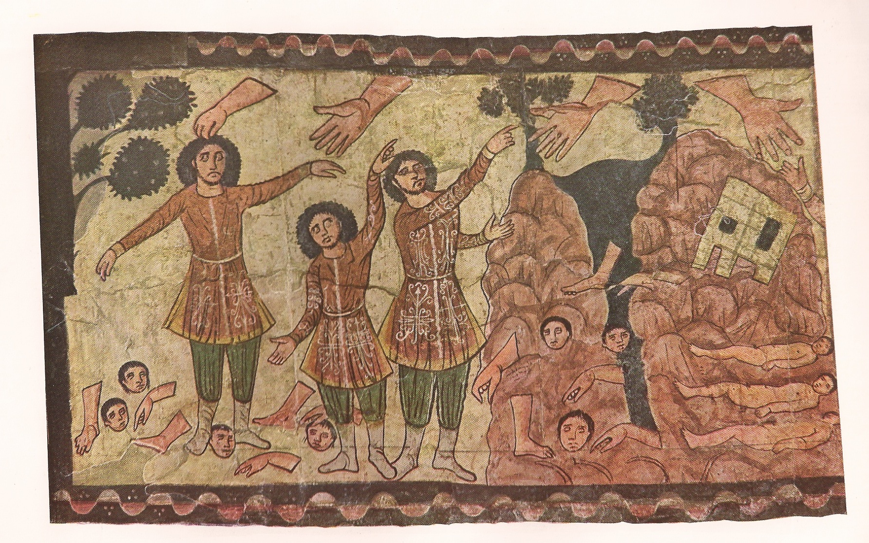 Ezekiel and the hand of God. Dura Europos synagogue wall painting